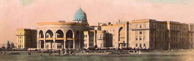 Heliopolis Palace Hotel turned into the Federation of Arab Republics headquarters in 1972 and later into an executive presidential palace during Mubarak's reign.